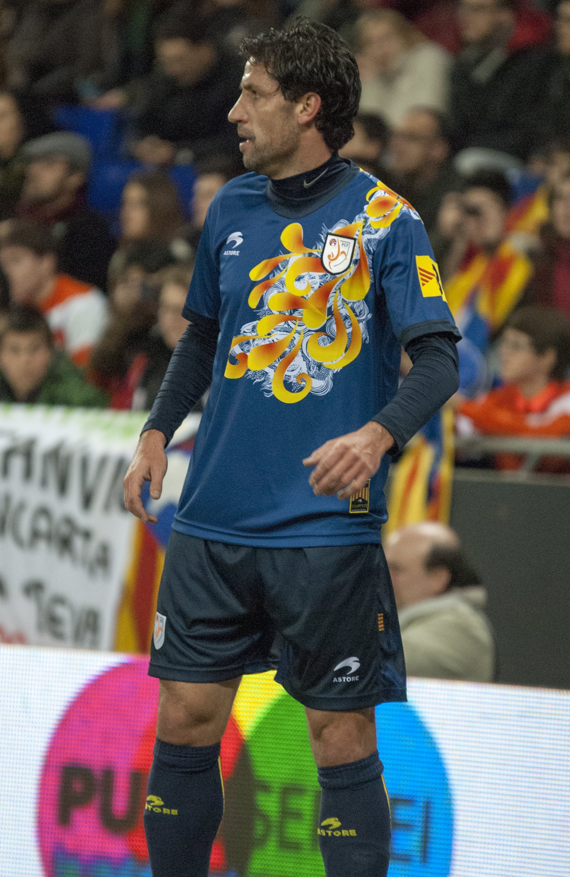 Joan Capdevila during friendly match Catalonia vs. Nigeria